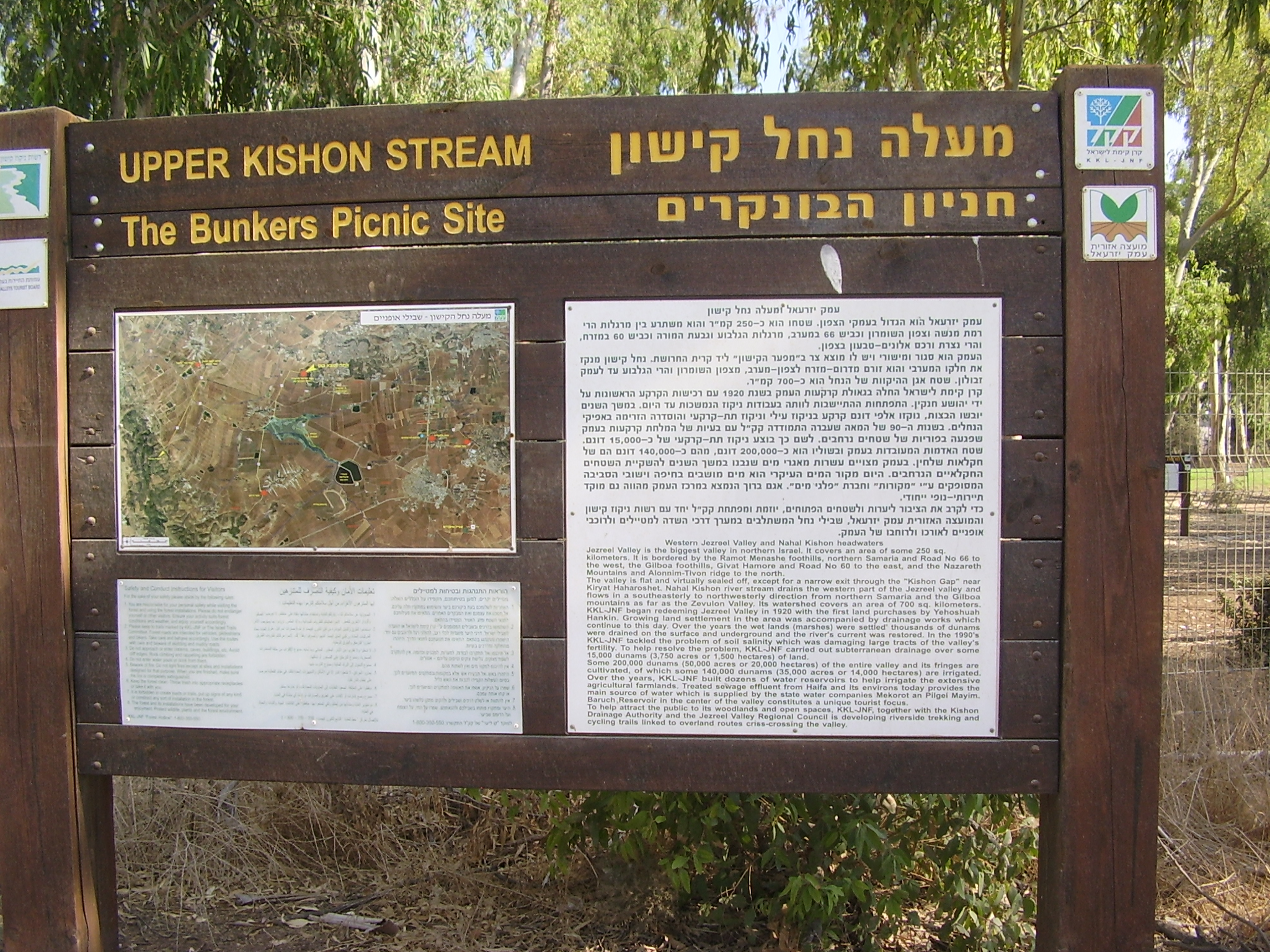 The bunkers picnic site in Jezre'el valley